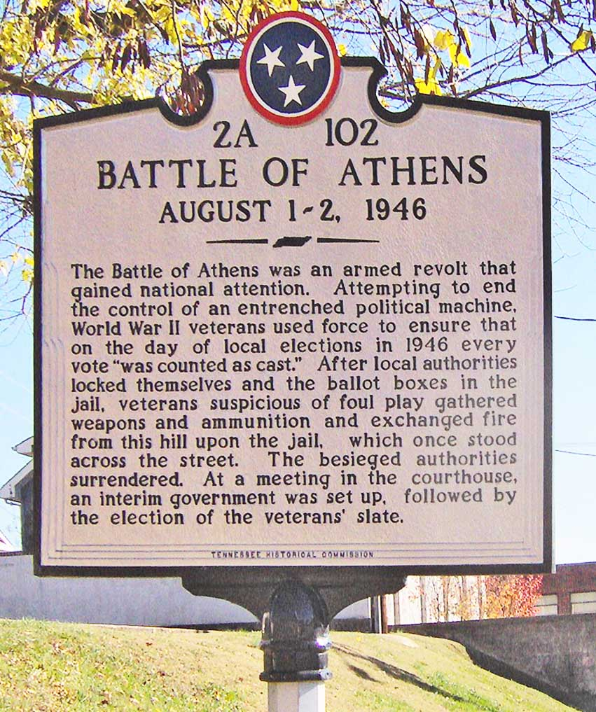 Tennessee Historical Commission marker in Athens, Tennessee, in the southeastern United States. The marker recalls the "Battle of Athens," which occurred on August 2, 1946, when local officials locked themselves in the old jail (formerly off-camera to the right), allegedly to fix election results. An armed group of World War II veterans and supporters assembled on the hill to the left and exchanged fire with the authorities in the jail.